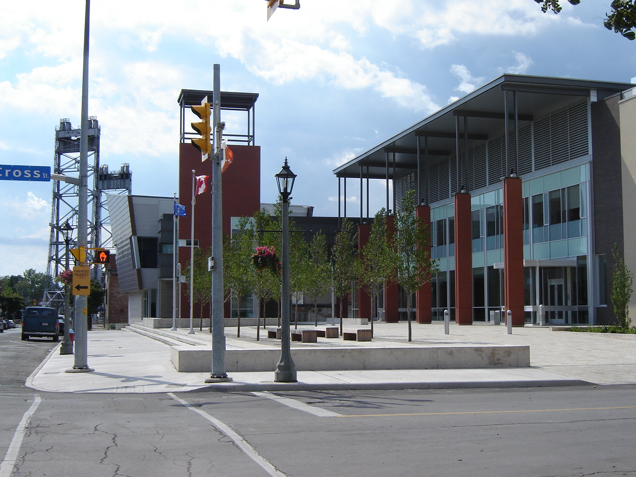 The newly-built Welland, Ontario Civic Square (contrary to the filename), housing the city hall and the Welland Public Library. The towers of the Seaway Bridge #13 are visible in background on left. Photo taken from northeast corner of East Main and Cross Streets.